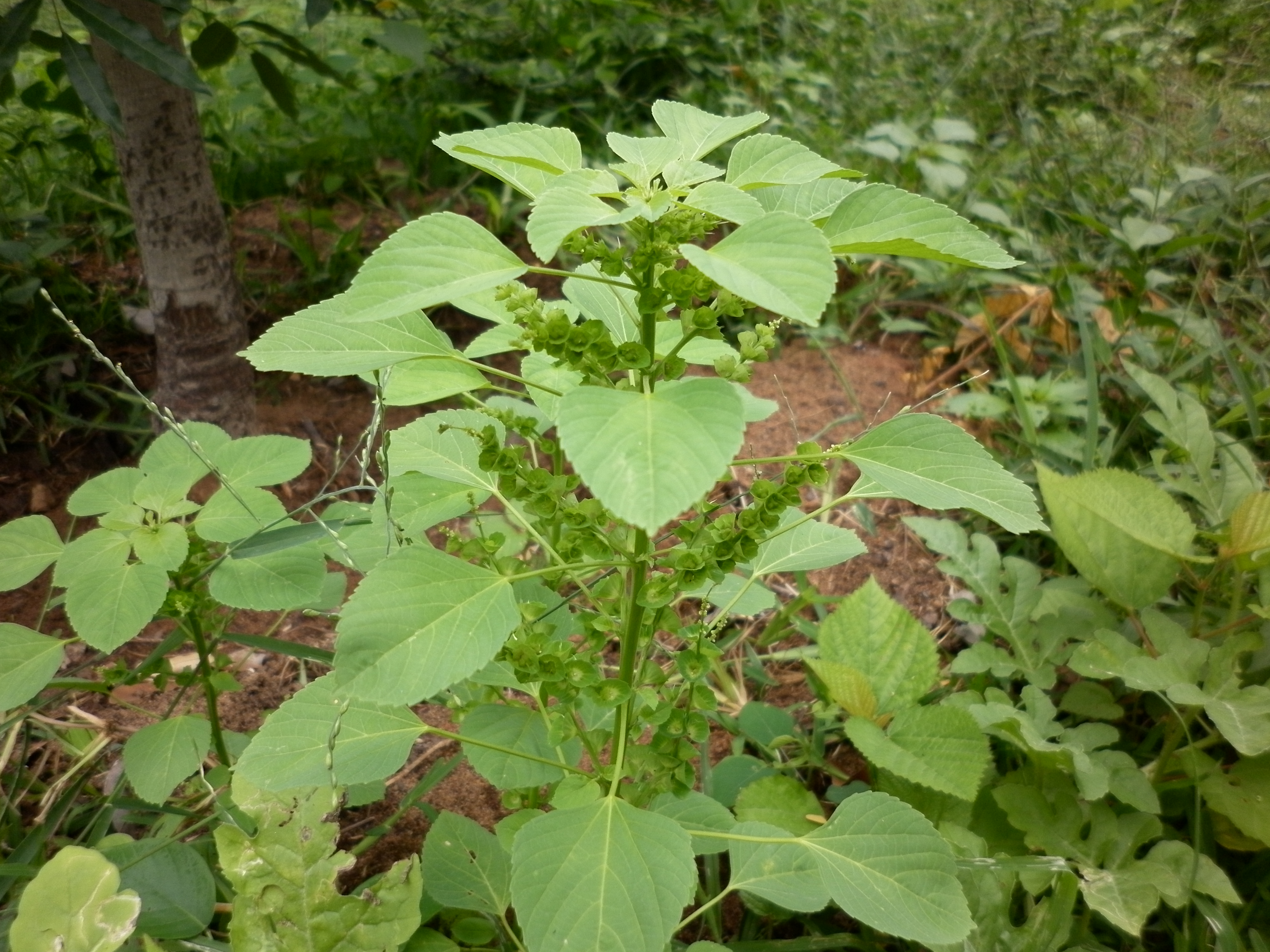 A medicinal plant which is available in copious amount taken at pondichery botanical garden